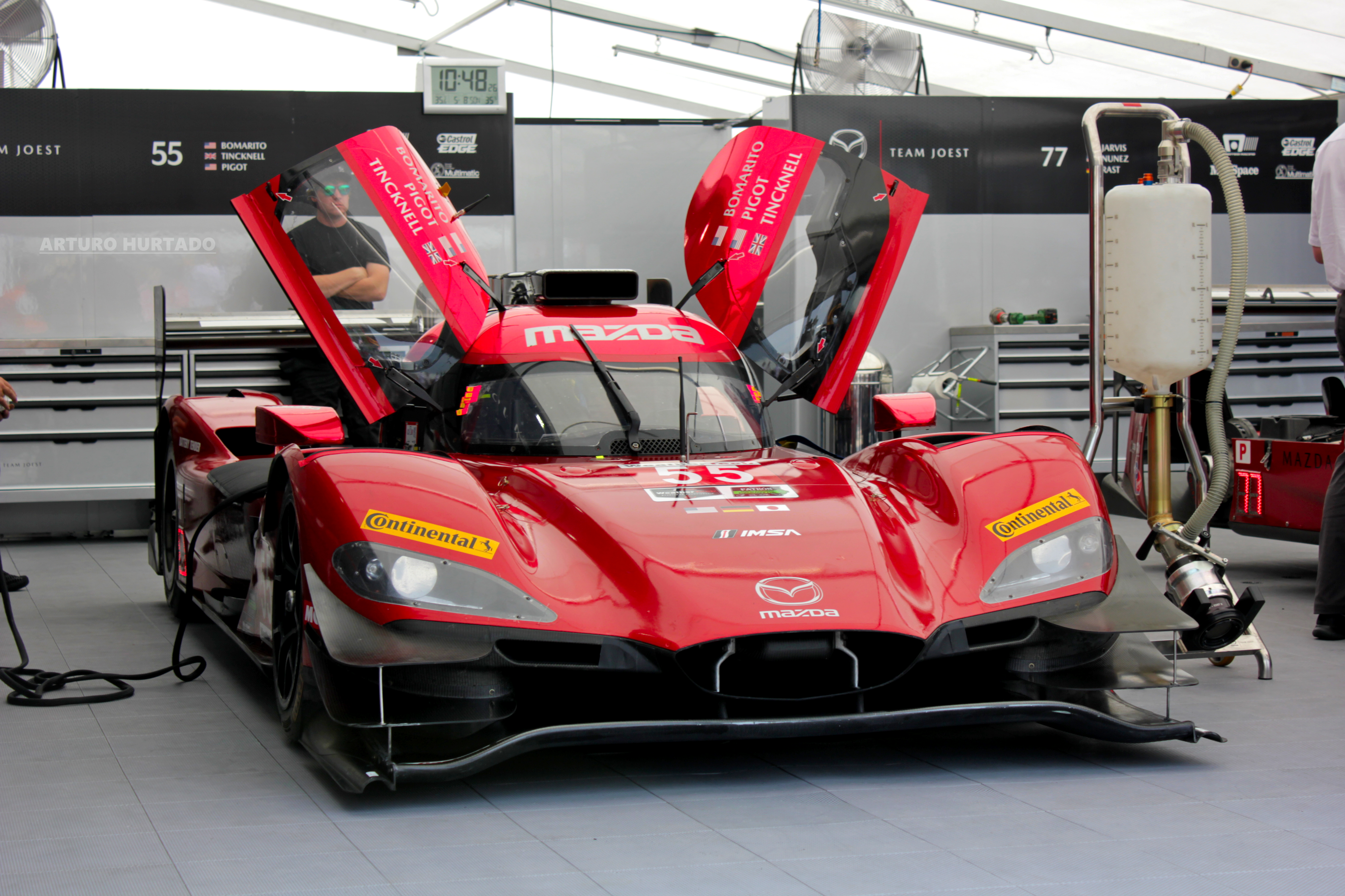 2018 Road Race Showcase Mazda RT24-P n°55 driven by Jonathan Bomarito and Harry Tincknell